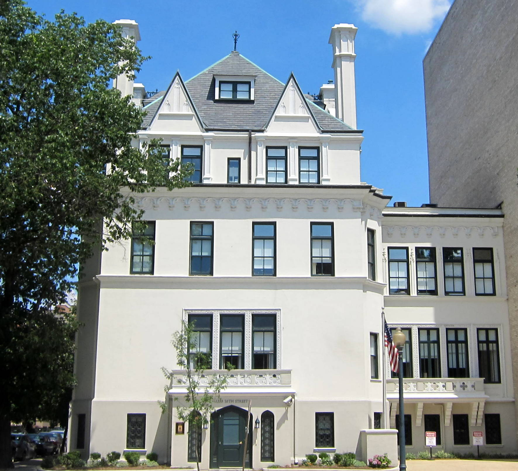 Headquarters of The Washington Center (TWC), also known as The Washington Center for Internships and Academic Seminars, is located at 1333 16th Street NW in Washington, D.C. Built in 1881 for Representative George M. Robeson, the Italianate-style mansion was designed by Wyatt & Speary. It is designated a contributing property to the Sixteenth Street Historic District. Former occupants include Representative William Bourke Cockran, Assistant Secretary of State Robert Bacon, Secretary of State Elihu Root, the American Psychological Association, Persian ambassador Ghaffar Khan Djalal, the Embassy of Nigeria, the Embassy of Venezuela, and Venezuelan ambassador Pedro Manuel Arcaya.